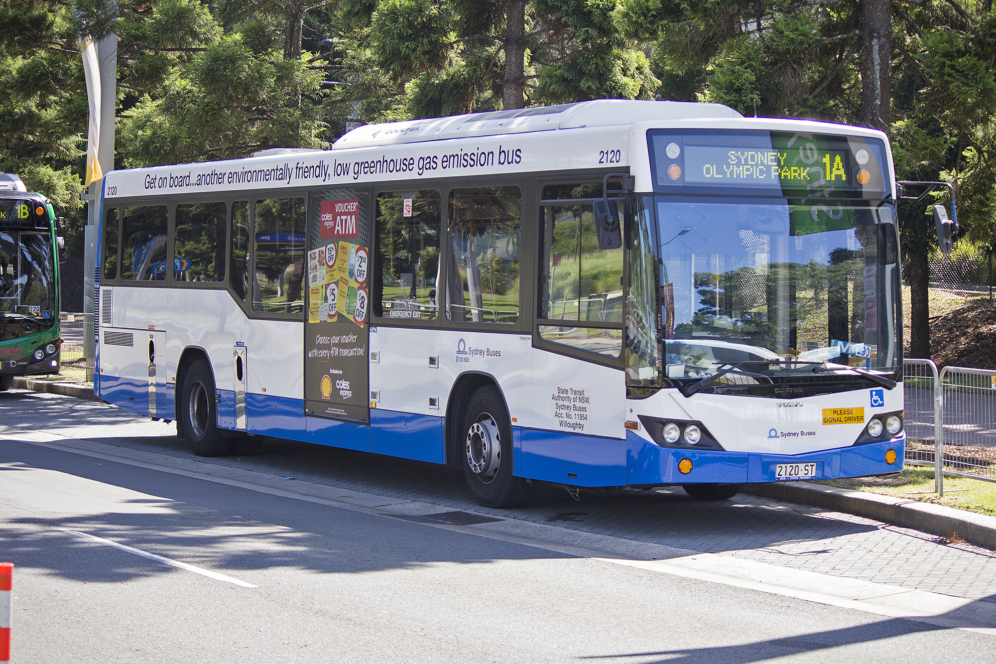 Sydney Buses (2120 ST) Custom Coaches 'CB60' Evo II Volvo B12BLE Euro 5 on Olympic Boulevard at Sydney Olympic Park.